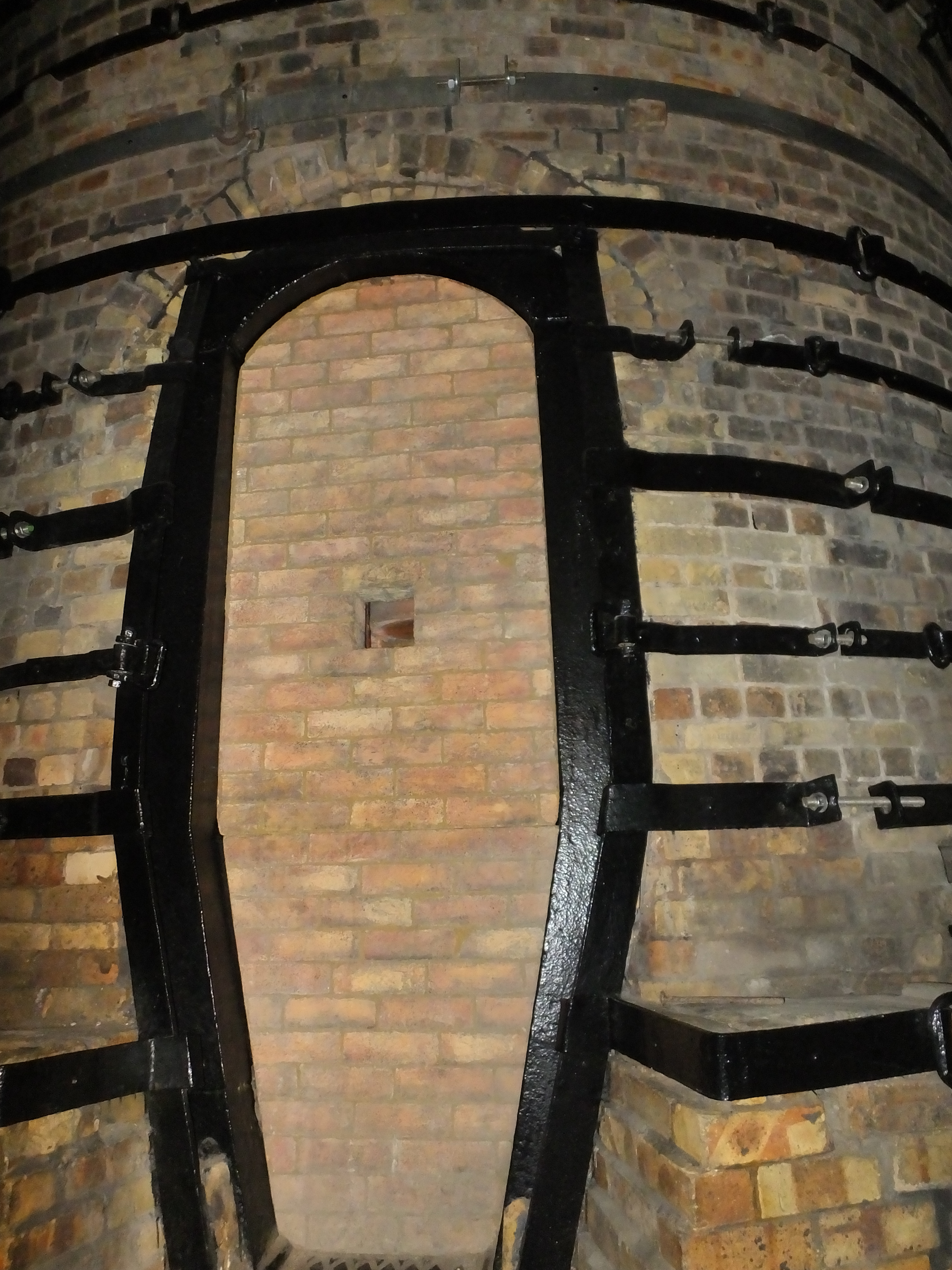 The Gladstone Pottery Museum The Gladstone Pottery Museum is a grade II* listed site in Stoke-on-Trent, with many protected features including the bottle kilns. Bottle oven A bottle oven is protected by an outer hovel which helps to create an updraught. The biscuit kiln was filled with saggars of green flatwares (bedded in flint) by placers. The doors (clammins) were bricked up and the firing began. Each firing took 14 tons of coal. Fires were lit in the firemouths and baited ever four hours, Flames rose up inside the kilns, heat passed between the bungs of saggars. They controlled the temperature of the firing using dampers in the crown. The temperature was gauged by watching the contraction of bullers rings place in the kiln. A kiln would be fired to 1250C The biscuitwares are glazed and fired again in the bigger glost kilns- again they are placed in saggers, separated by kiln furniture such as stints, saddles and thimbles. The enamel (or muffle kiln) is of different construction- it fired at 700C. The pots were stacked on 7 or 8 levels of clay bats (shelves). The door was iron lined with brick. clammins